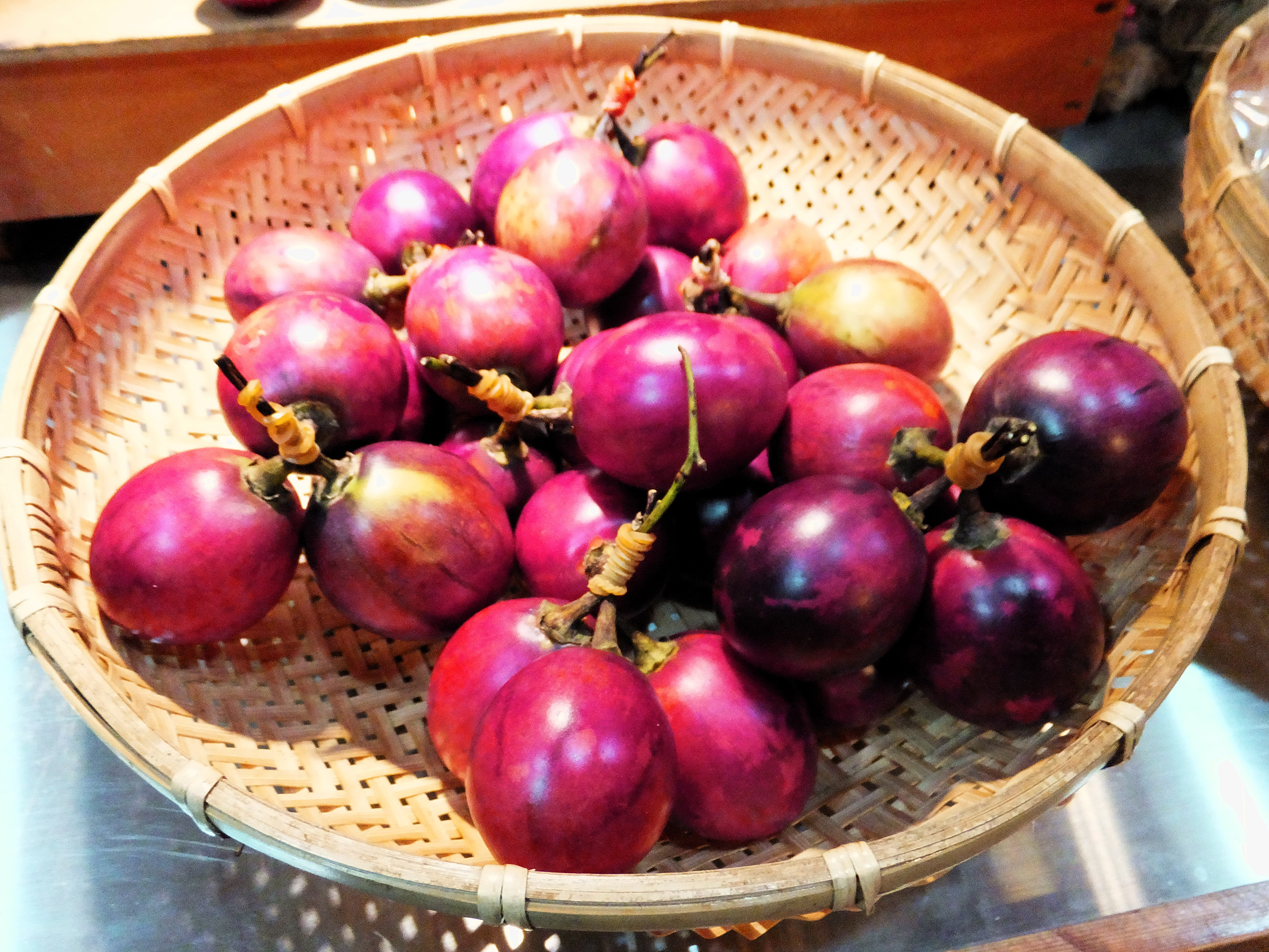 樹番茄 Tamarillo or Tree tomato